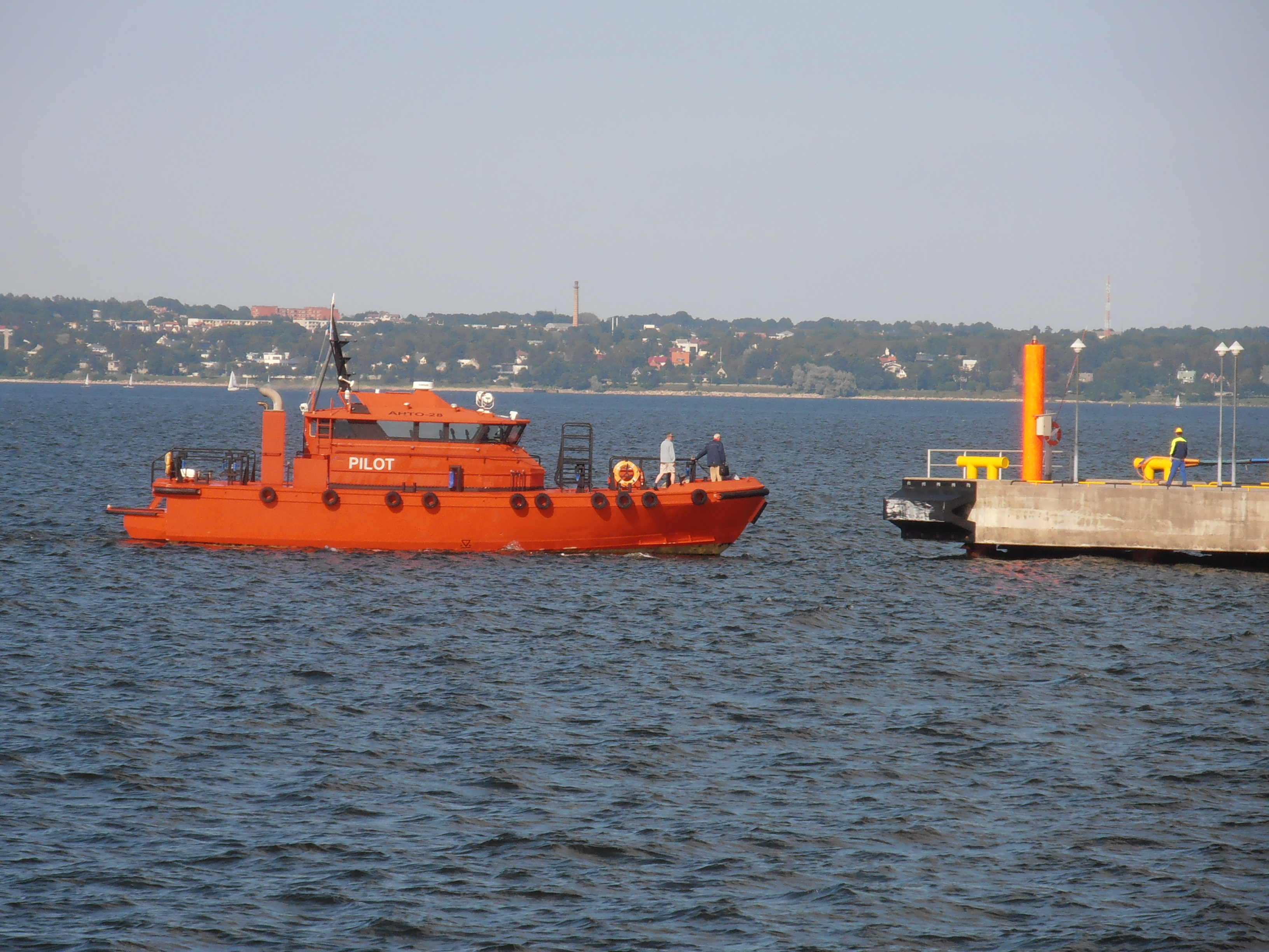 Ahto-28 approaching the pier 24 in Port of Tallinn 2 August 2012 (beacon Vanasadam cruise ship quay Fl(1)W 3s3M (B: 59°27′5.36″N; L: 24°45′45.56″E))